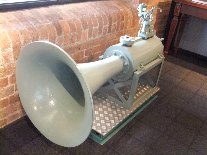 Steam whistle manufactured for a supertanker by Chadburn Engineering Ltd. On display at the Merseyside Maritime Museum, Liverpool, England.